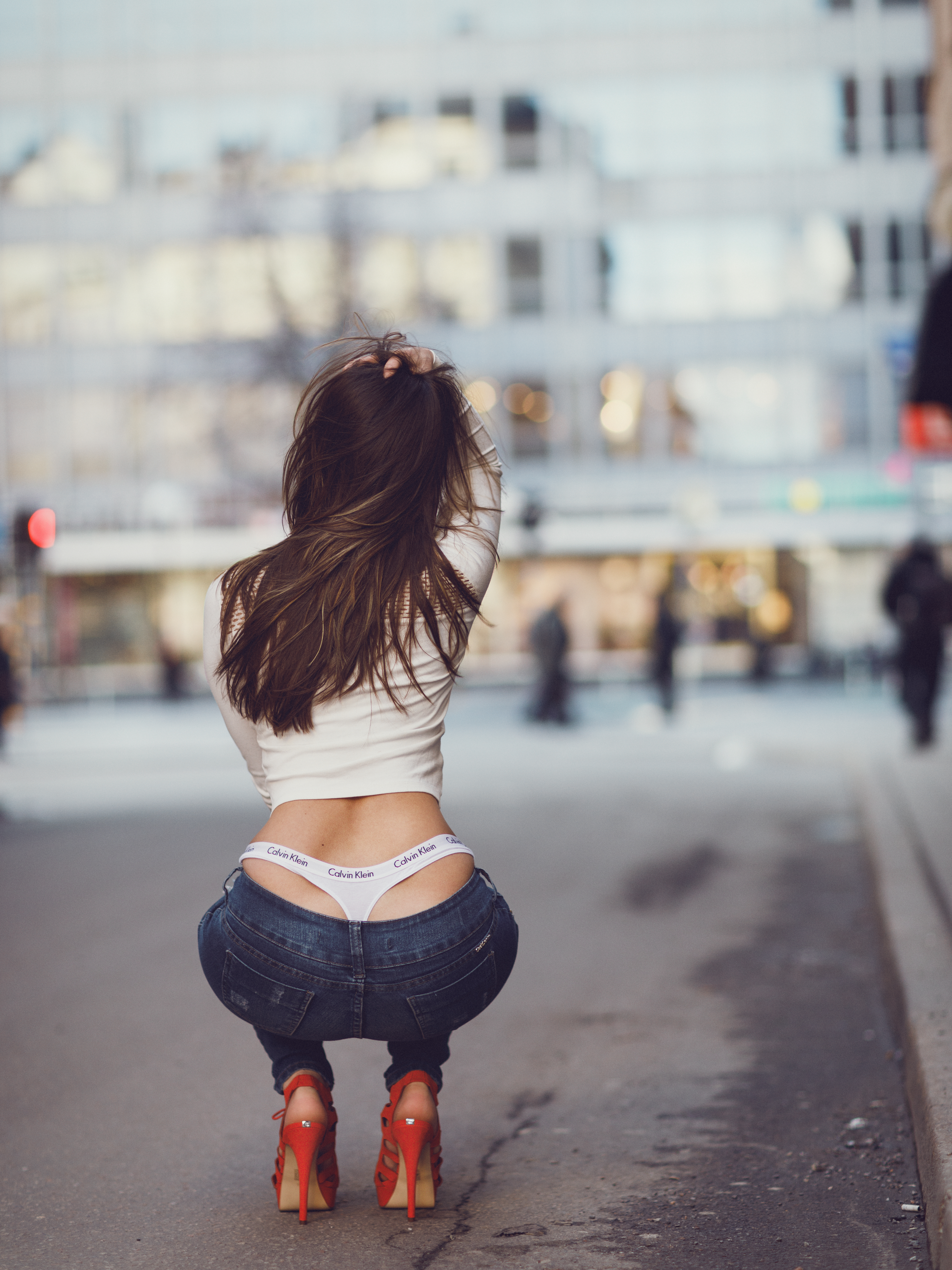 Woman with whale tail as fashion